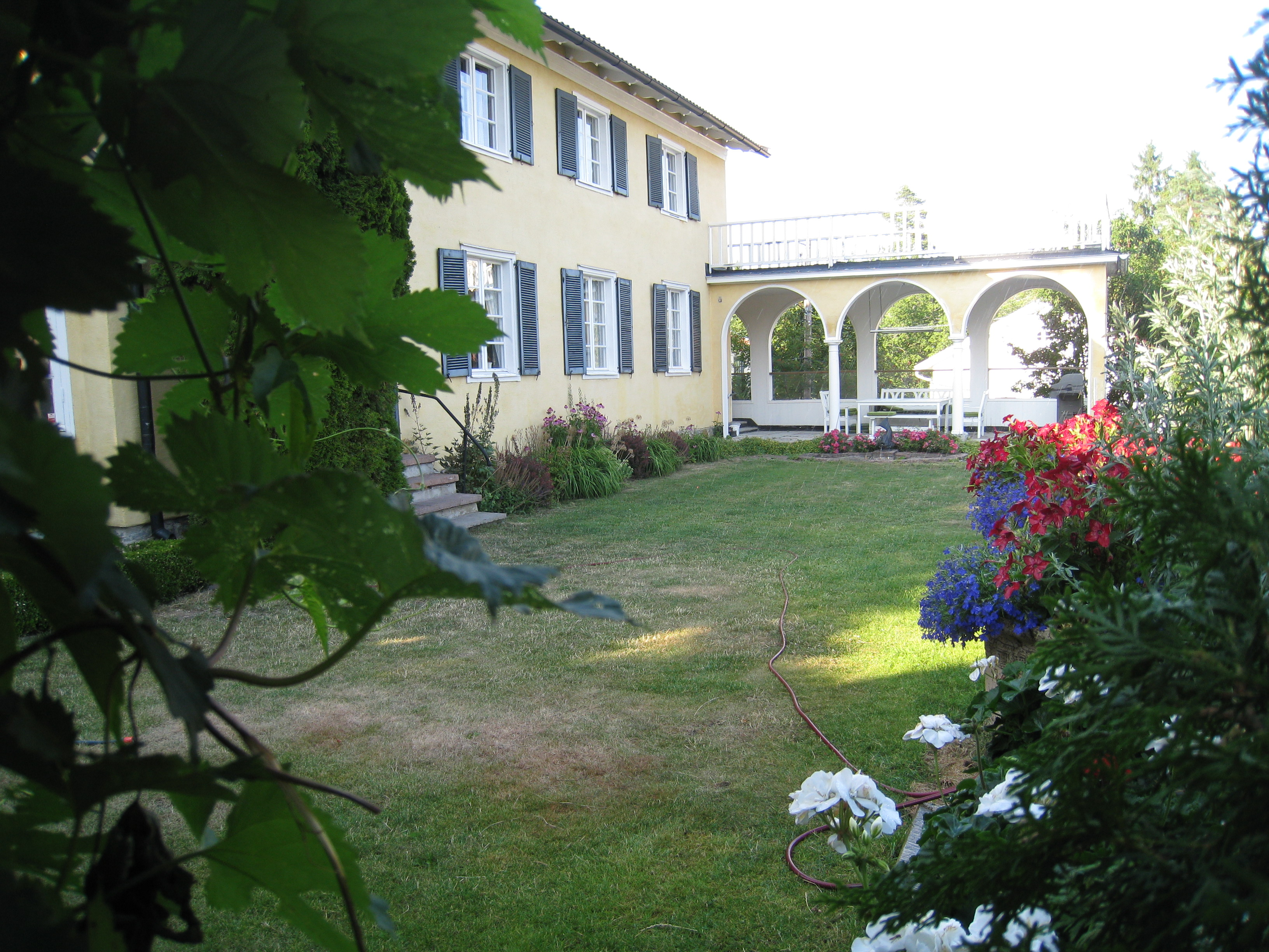 Villa Gustaf Birch-Lindgren, Vinghästvägen 11 in Höglandet, near Ålsten, in Bromma. Gustaf Birch-Lindgren (1892-1969) was a Swedish architect.